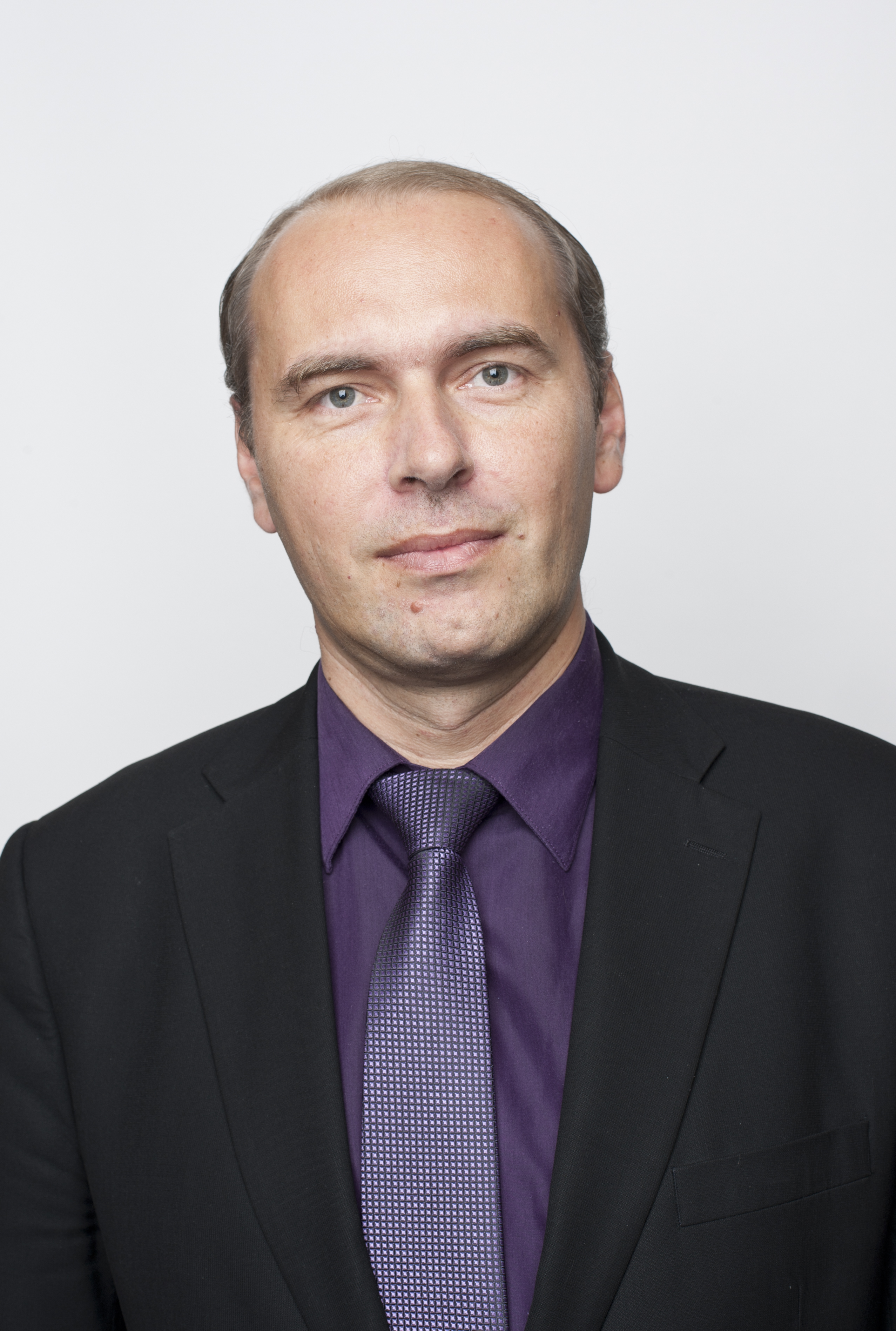 Mgr. Libor Michálek, MPA, from 2012 member of the Senate of the Parliament of the Czech Republic